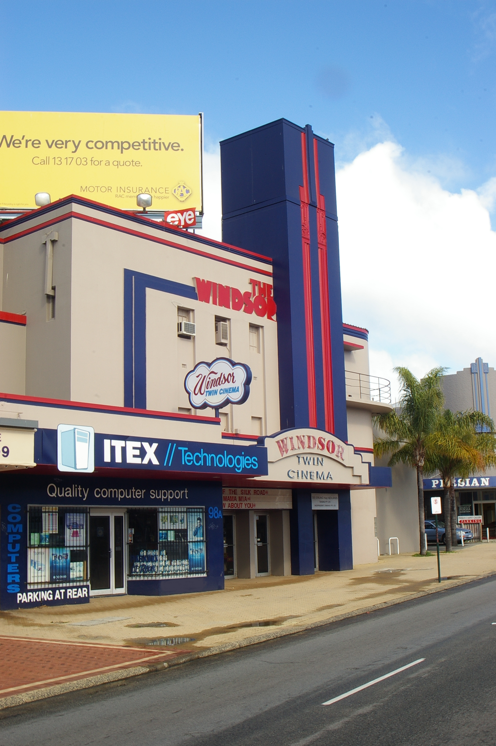 Art Deco design buildings around perth Windsor Cinema in Nedlands